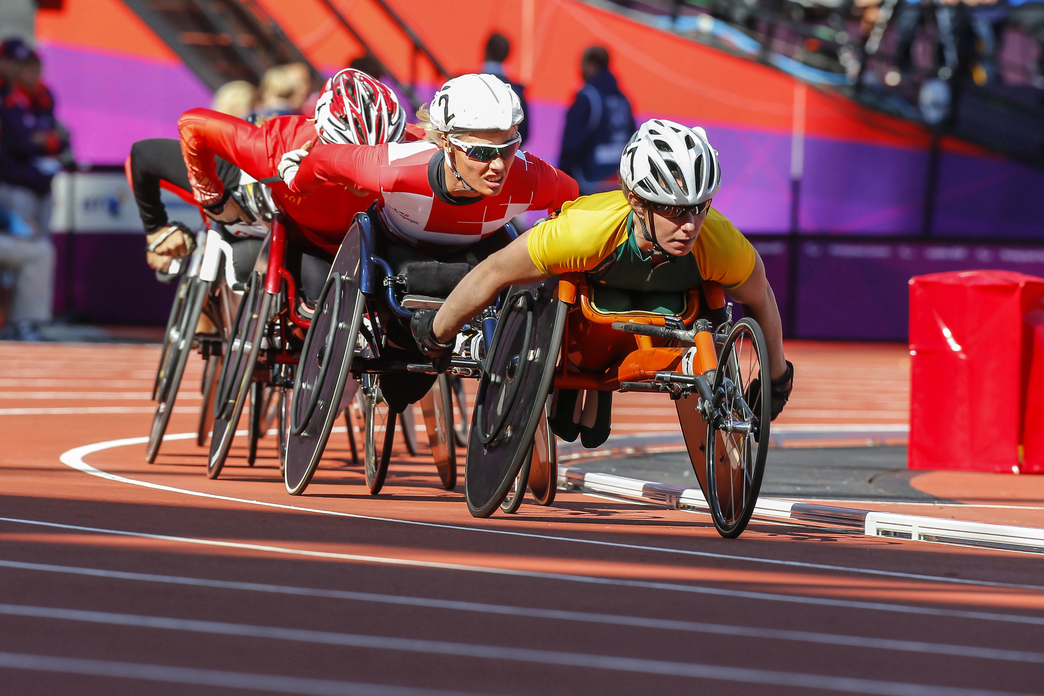 Photograph of Australian Paralympic team member Christie Dawes being challenged by Switzerland's Edith Wolf in the 5000m T54 first heat at the 2012 Summer Paralympic Games in London on 31 August.